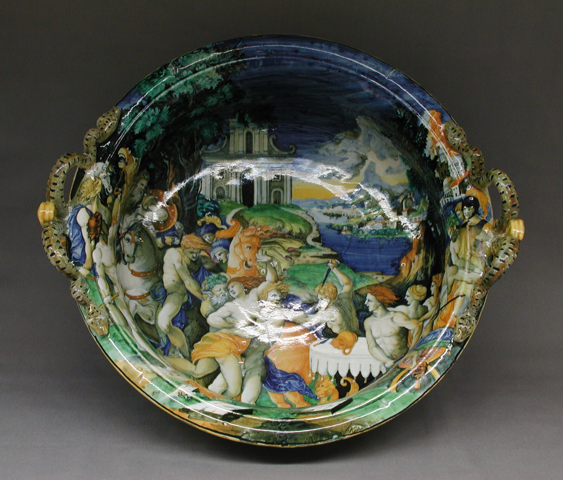 Italian, Urbino; Cistern; Ceramics-Pottery